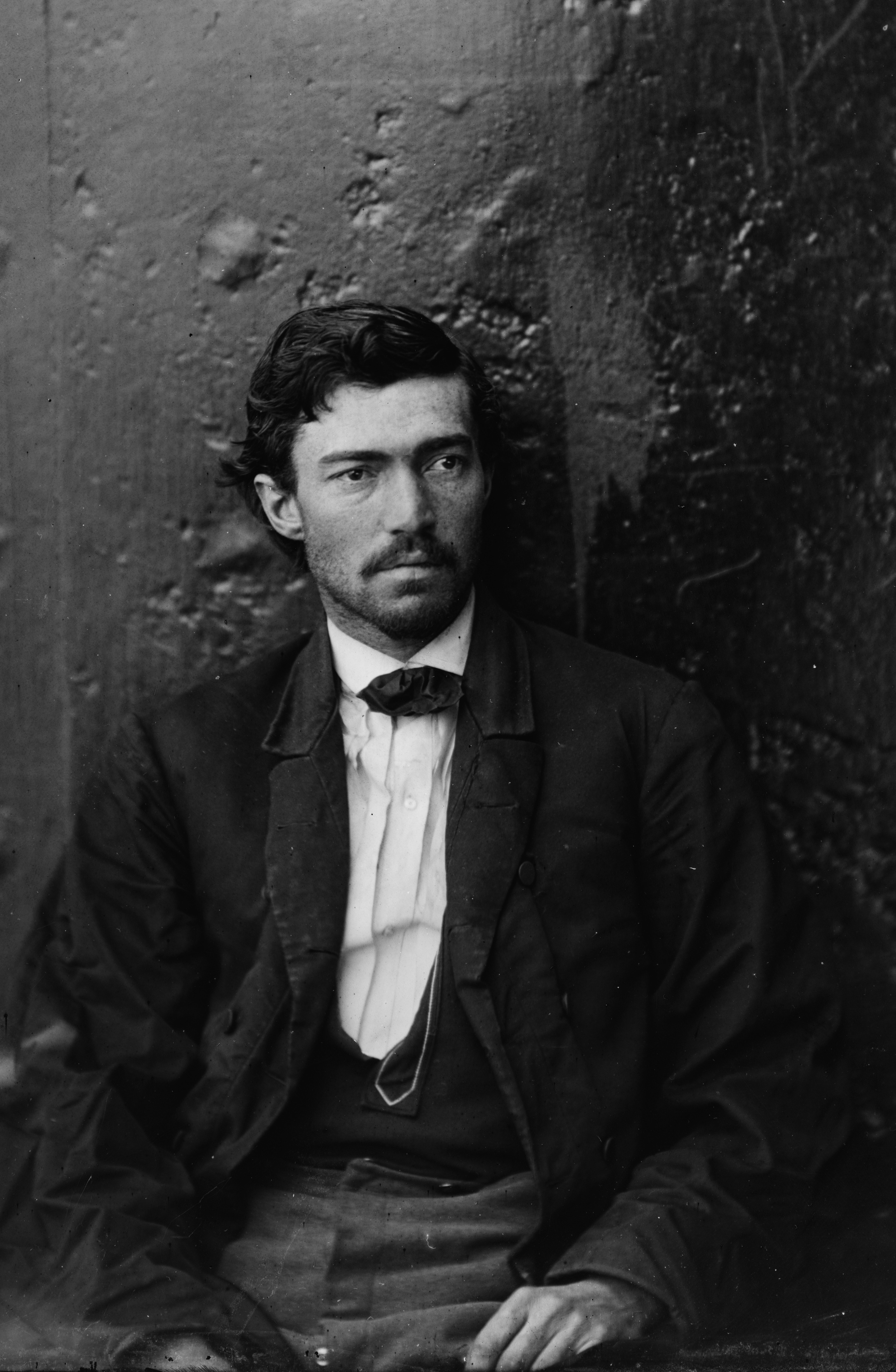 Samuel Arnold (Lincoln conspirator). Library of Congress description: " Washington Navy Yard, D.C. Samuel Arnold, a conspirator . Photograph of Washington, 1862-1865, the assassination of President Lincoln, April-July 1865. This photograph has background of dark metal, and was presumably taken on the monitors, U.S.S. Montauk and Saugus, where the conspirators were for a time confined."